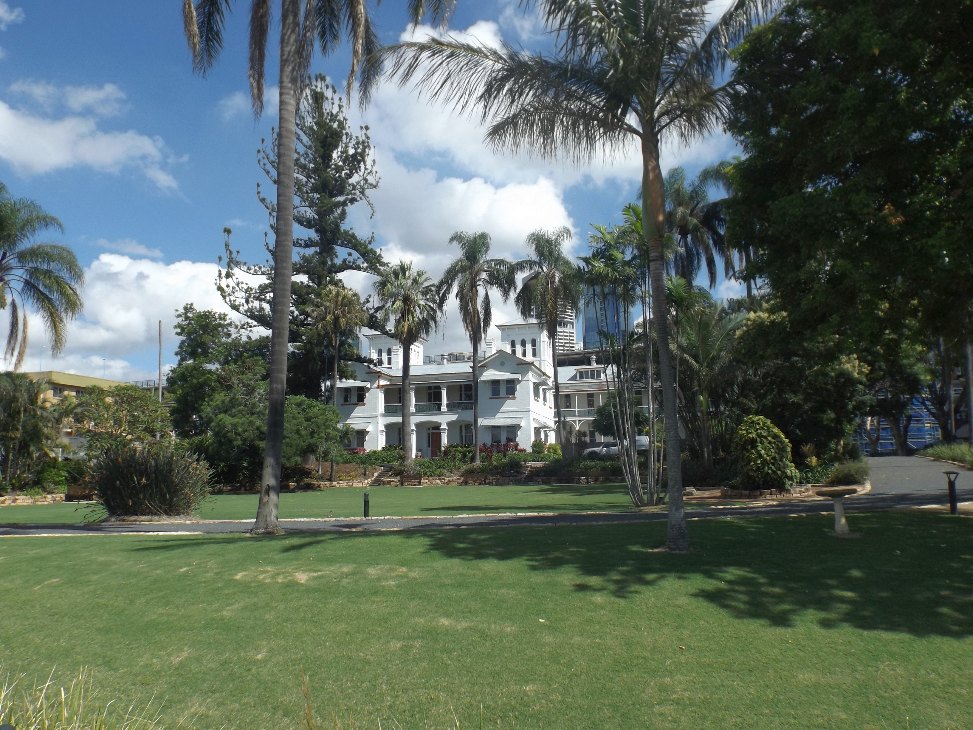 Photo of Yungaba Immigration Centre and riverside lawns at Kangaroo Point, Brisbane, Queensland, Australia.